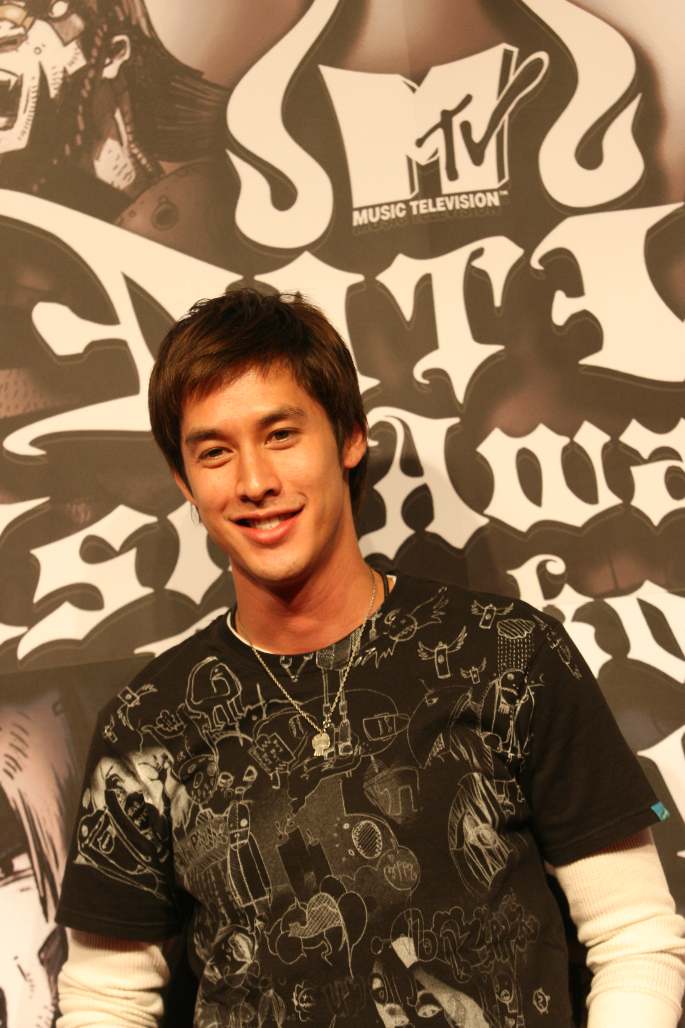 Utt Panichkul at MTV Asia Awards Press conference